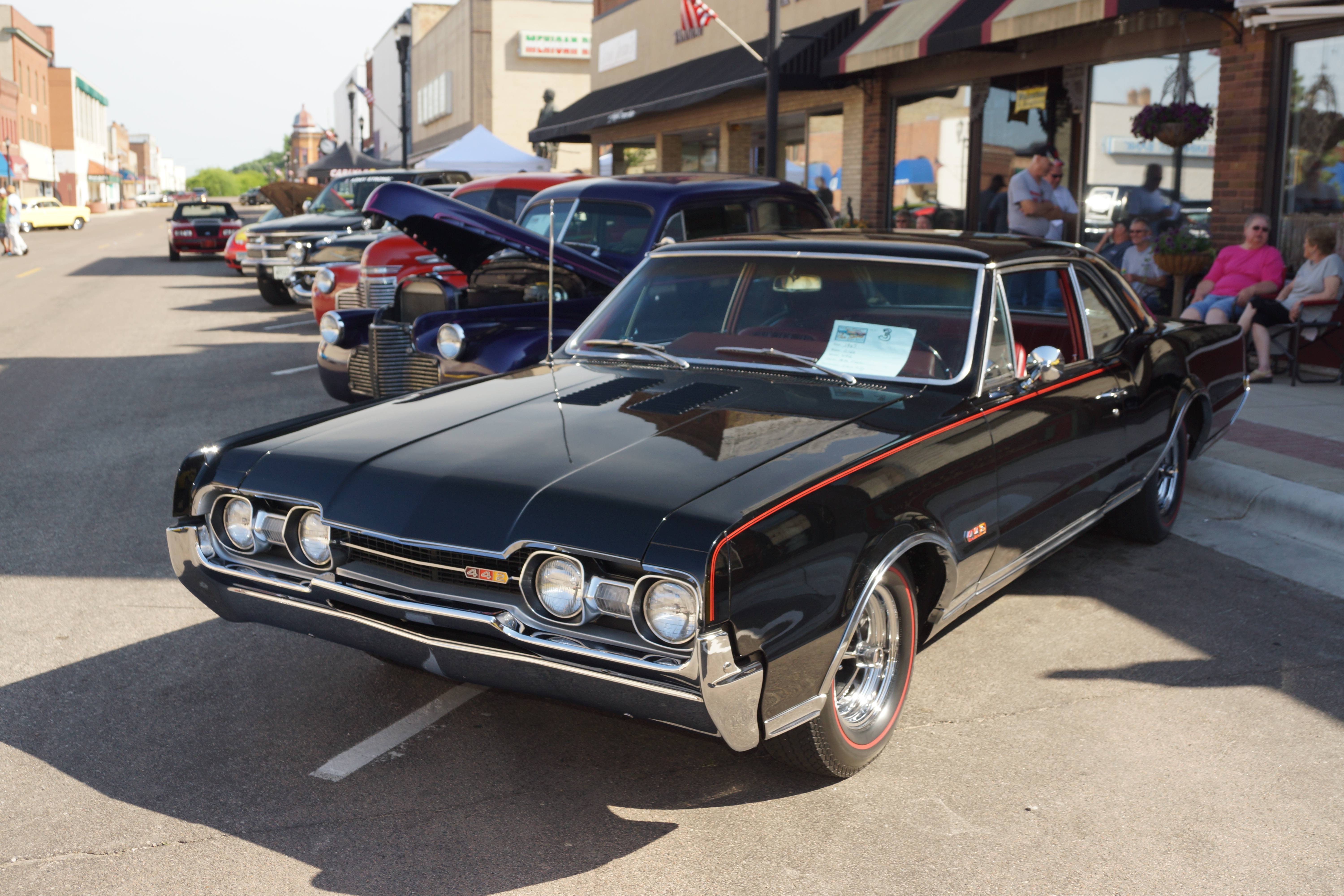 Fiesta Motorcycle & Car Show June 2016 Fiesta Days Montevideo, Minnesota Click here for more car pictures at my Flickr site. Or here for my Car Crazy Tumblr site. Or on Twitter @DVS1mn.